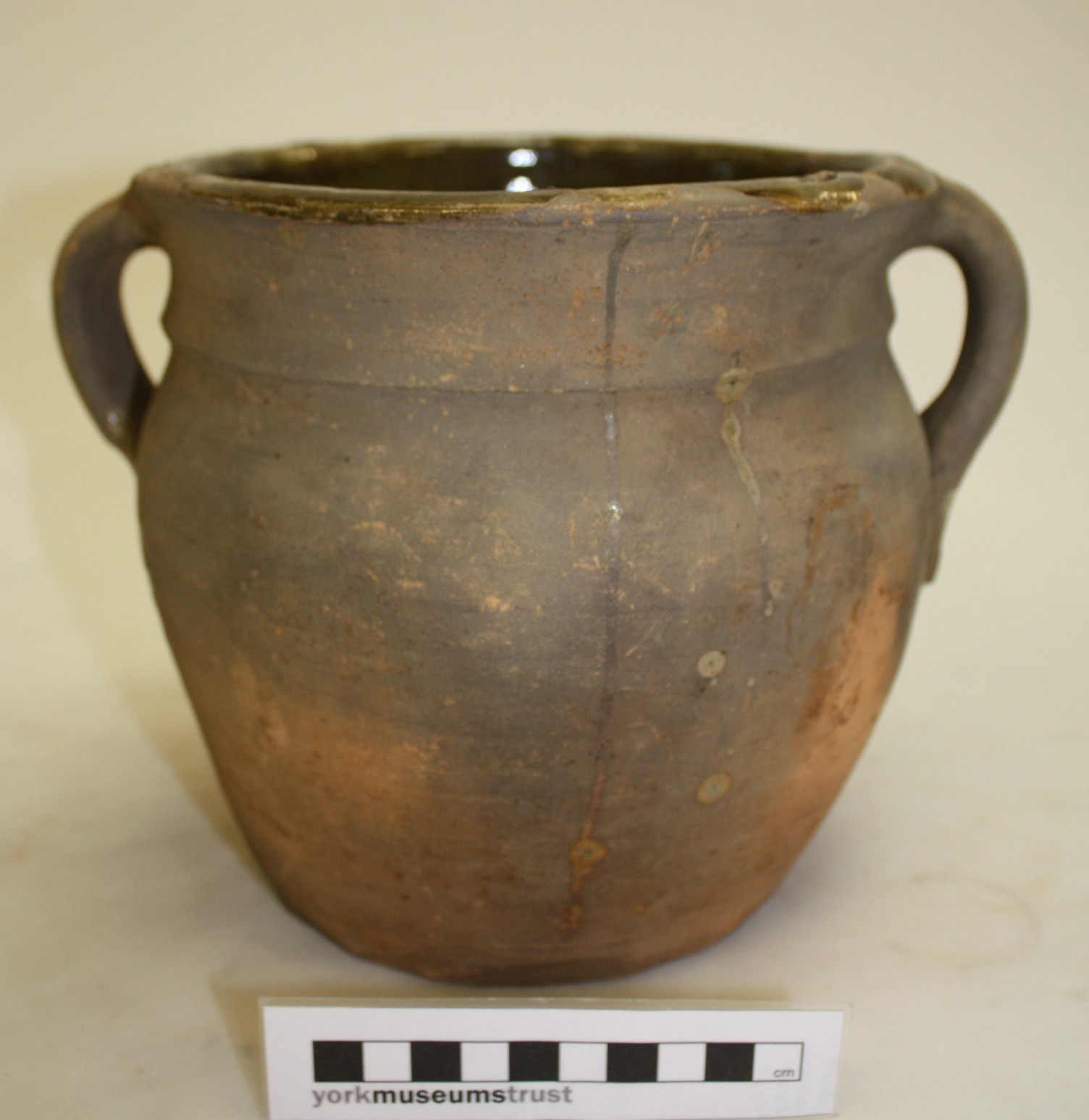 Vessel with two handles and glossy olive green glaze inside. Pot 'B' of the three vessels containing the Middleham hoard.